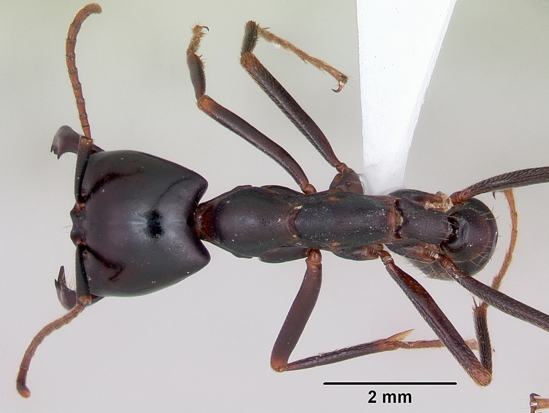 Dorsal view of ant Dorylus nigricans specimen casent0172643.